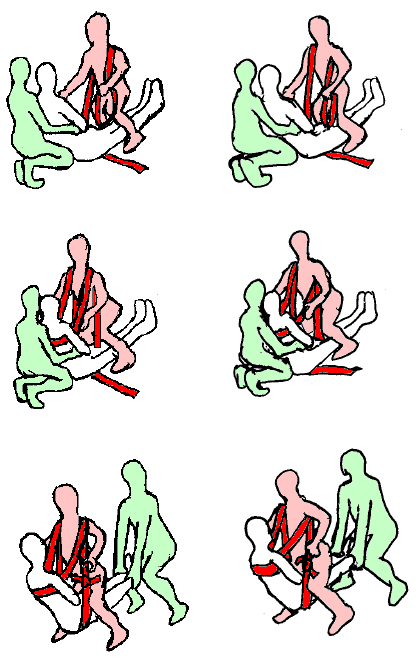 Lifting a casualty in half seated position with a strap; two methods with three team members (left and right), the 3rd team member pushes the stretcher. Auteur/author : Christophe Dang Ngoc Chan (cdang)